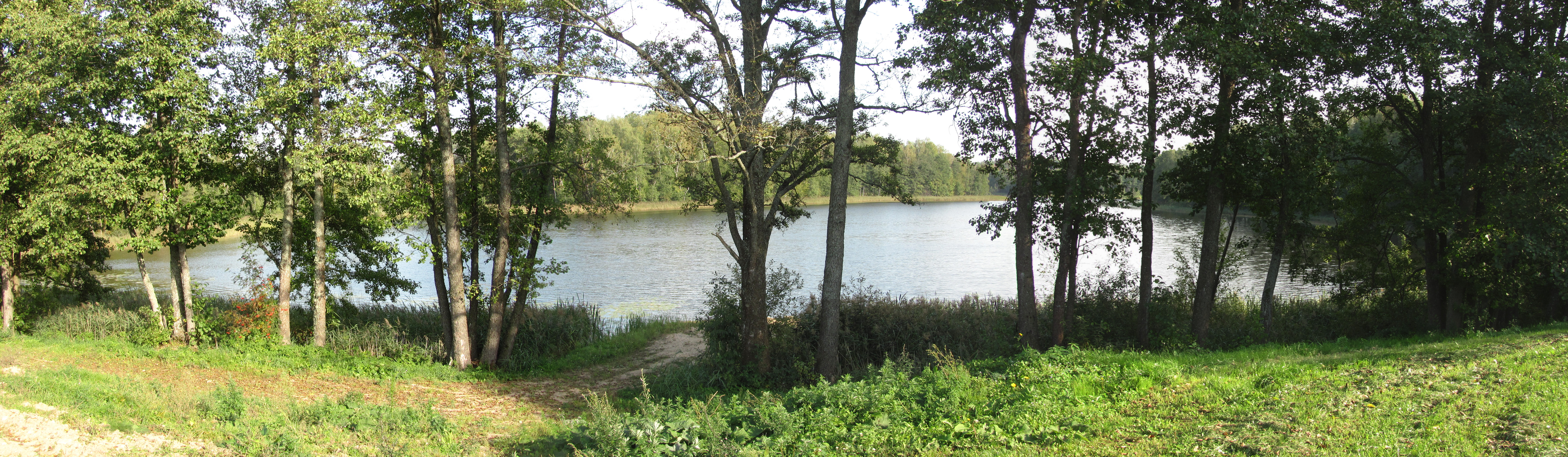 Turmanto sen., Lithuania